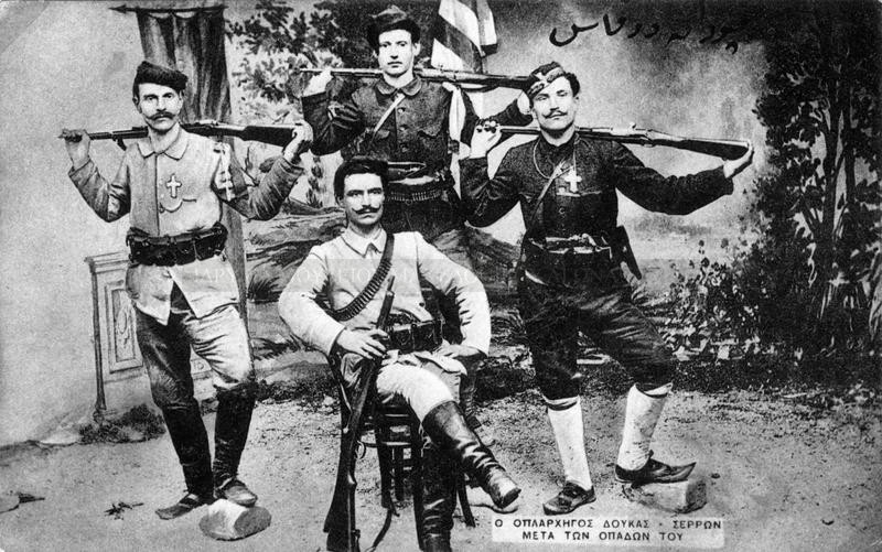 Doukas Doukas, Theodoros Boulasikis, Vassilios Tsiouvaltzis and Ioannis Martzios